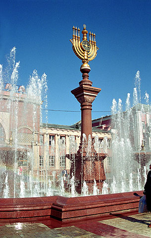 Birobidjan's Station Square, in front of the railway station